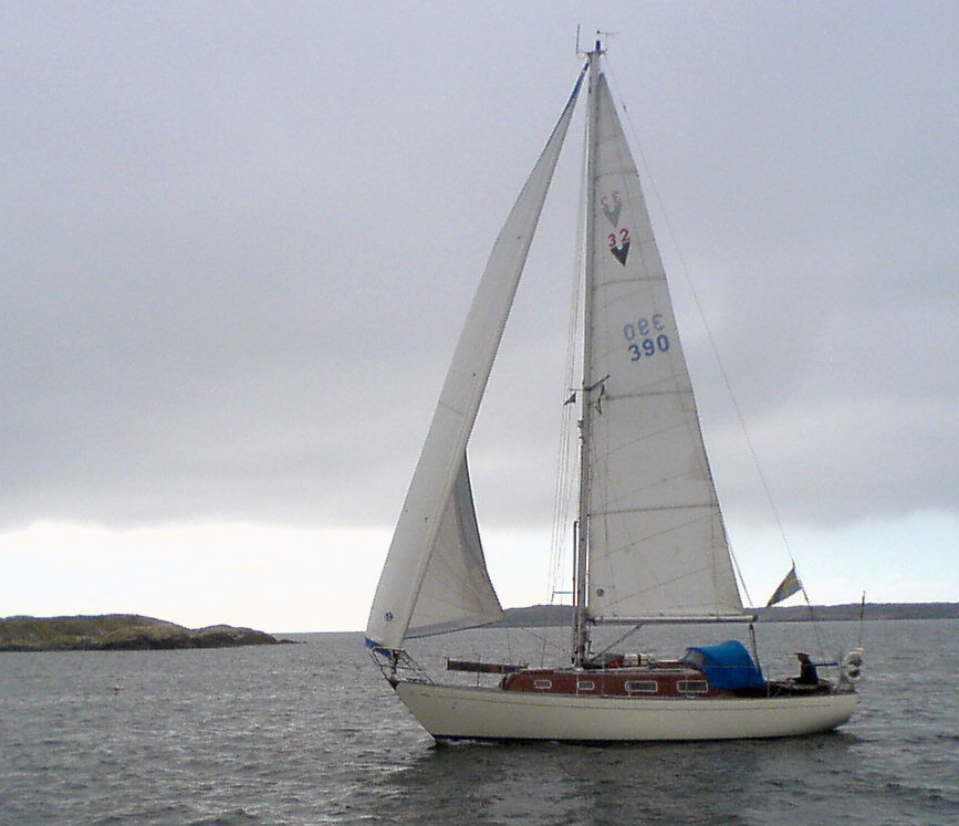 Vindø 32 reaching seen from the port side